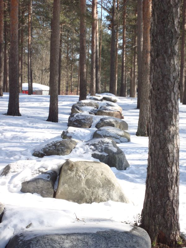 Umeå sculpture park/Sweden with 55 meter long double-line of double-boulders (1997) by Richard Nonas.